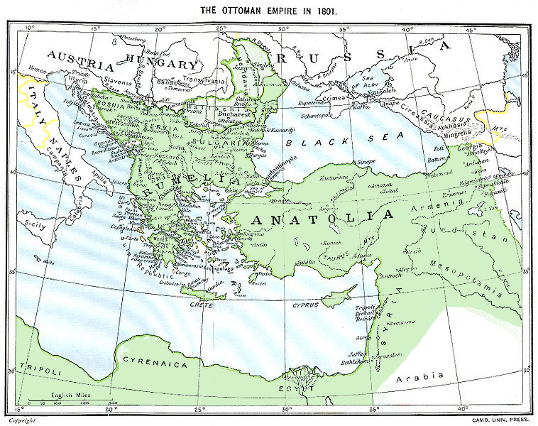 Mistakes on the original file published 1897 about the year 1801. Rectified in the new version. Erreurs dans le document original publié en 1867 sur l'année 1801. Rectifiées dans la nouvelle version.